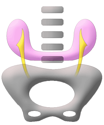 Sketch of a horseshoe kidney